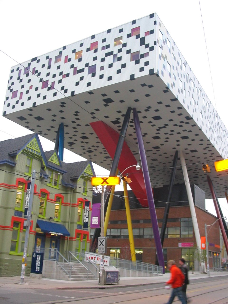 wow, it it ever impressive... or ugly. i used a polarized filter to take our the glare in the windows so you can see the tint. (Ontario College of Art and Design, Toronto, Canada) GeoTagged